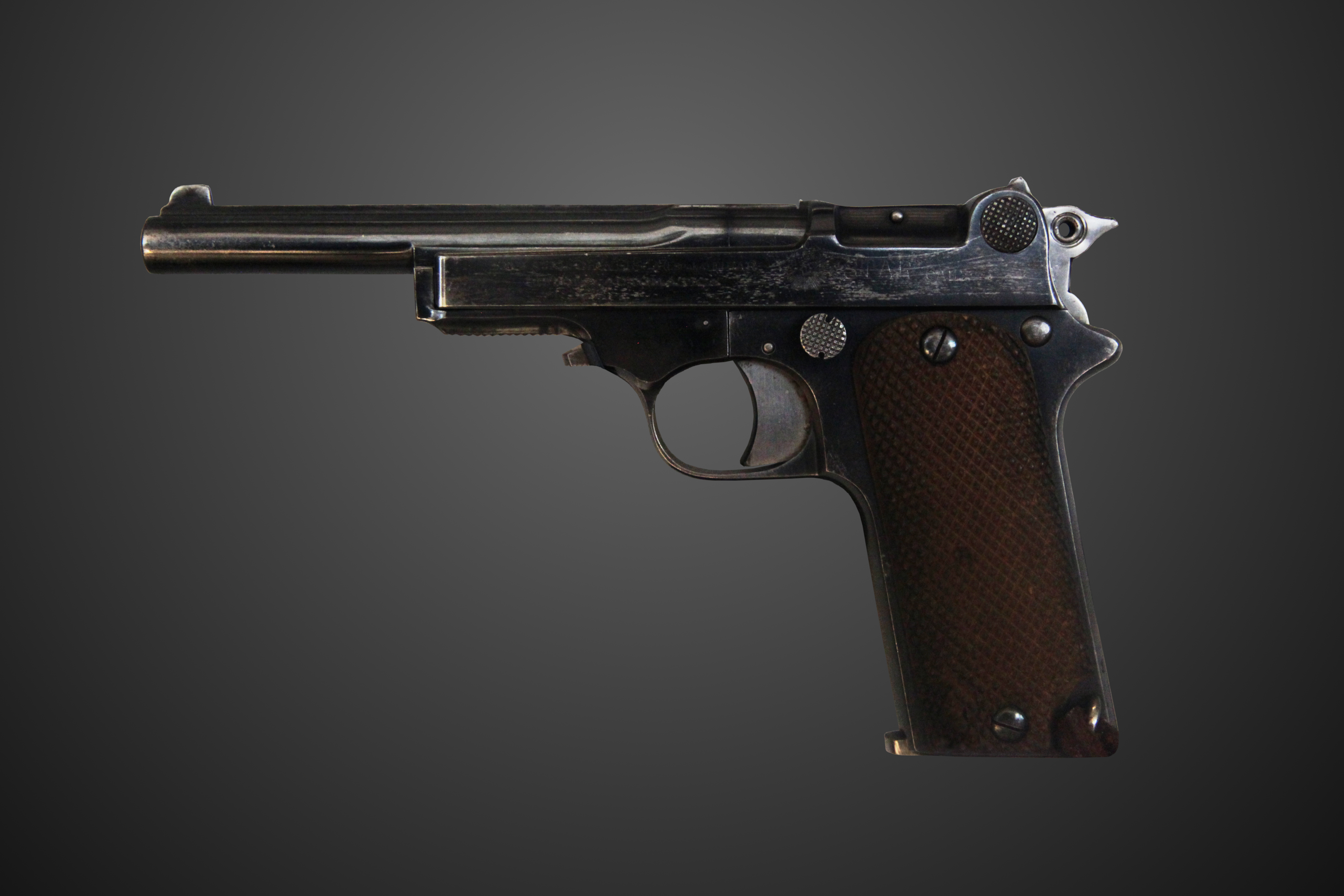 Star type 2 pistol, Spain, 1915. On display at Musée de l'Armée (Inv. 32146, given by Langle Neuilly in 1989)